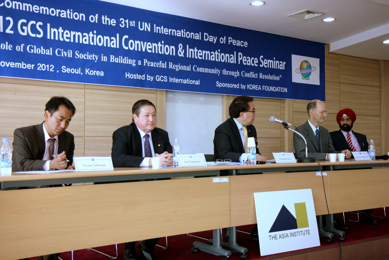 Presenters speak about East Asian affairs at an Asia Institute talk in Seoul, Korea.